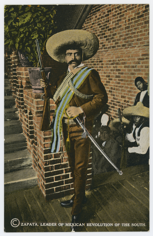 Title: Zapata, Leader of Mexican Revolution of the South Creator: Unknown Date: ca. 1913 Part of: and Diane Powell collection on Mexico and the Mexican Revolution/mode/exact Place: Cuernavaca, Morelos, Mexico Description: 1 photomechanical print (postcard): color; 14 x 9 cm File: ag2014_0005_01_003_02_zapata_012_leader_r_opt.jpg Rights: Please cite DeGolyer Library, Southern Methodist University when using this file. A high-resolution version of this file may be obtained for a fee. For details see the web page. For other information, . For more information and to view the image in high resolution, View the